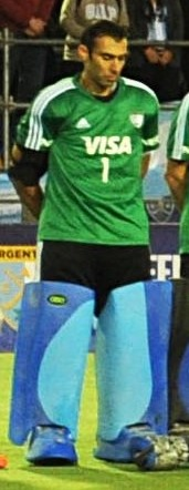 Argentina - Alemania 2014-15 Men's FIH Hockey World League Semifinals CeNARD pitch, Buenos Aires City, Argentina Match: Argentina 4 - Germany 3 Match report: [1]